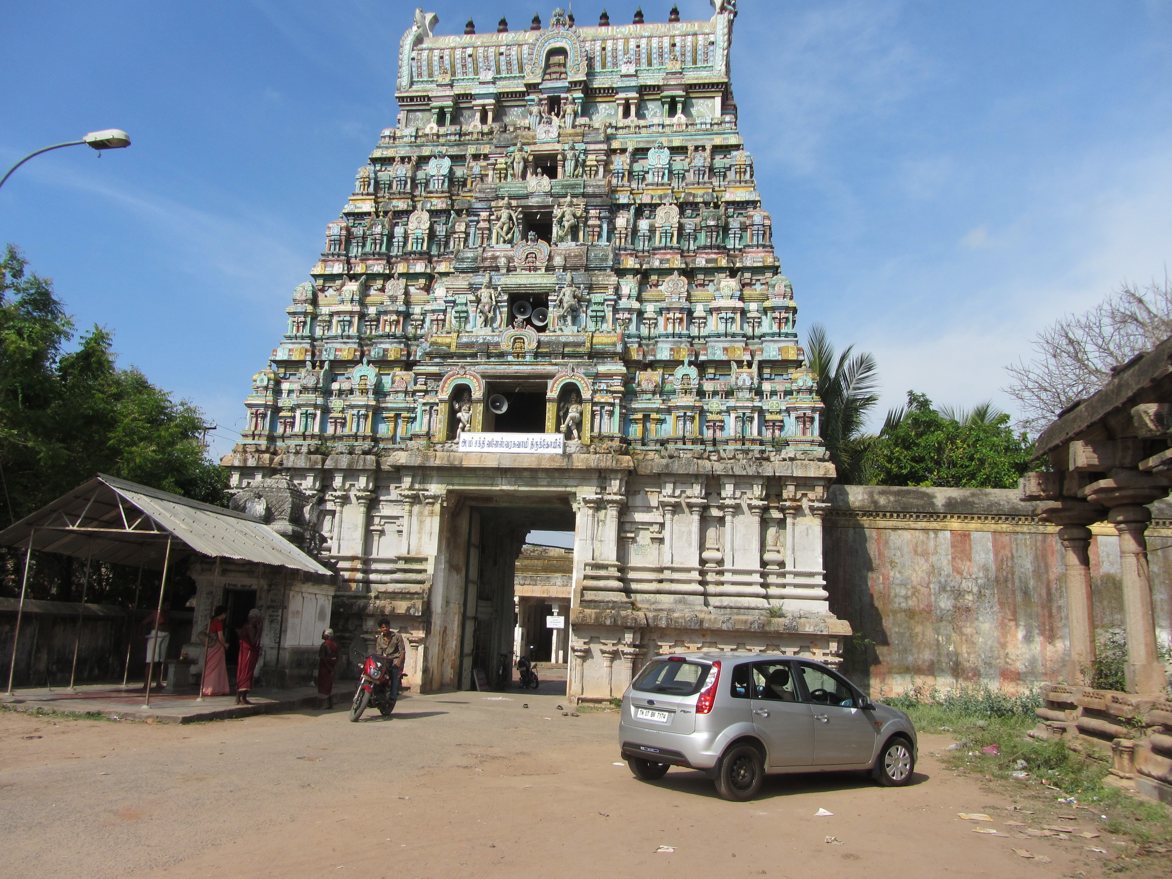 Sakthi Vaneswaraswami temple at Thiru Sakthimutram, about 10 kms from Kumbakonam.